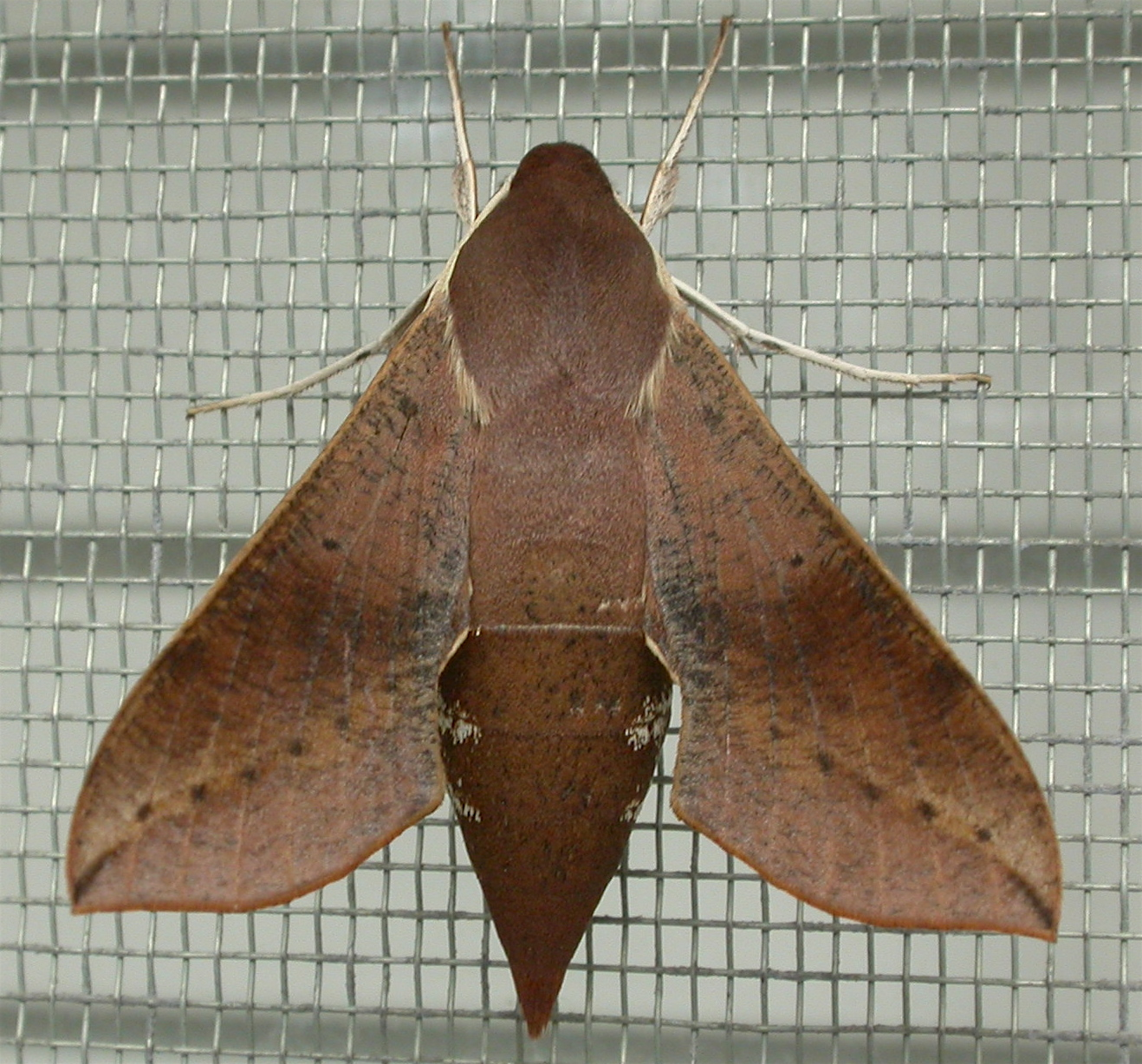 A Hippotion scrofa in Australia.